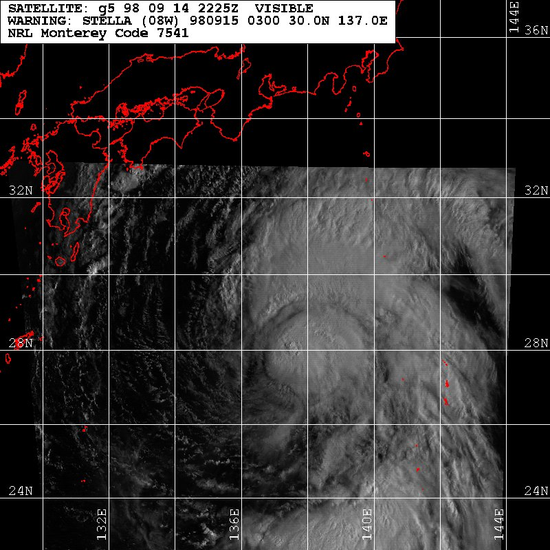 Typhoon Stella on September 14, 1998